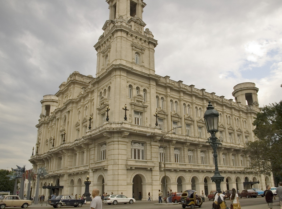 National Museum of Fine Arts at the Asturian Center